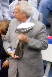 Steve Tisch - Giants Owner at the Giants parade in Manhattan the Tuesday following the Giants victory in Super Bowl XLII.